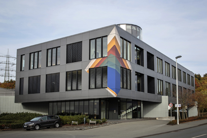 Interprint Design Centre Arnsberg